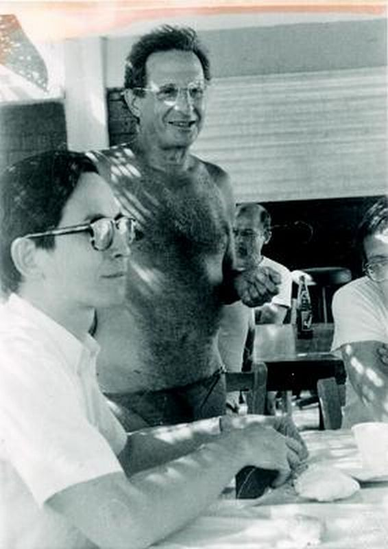 Martin Kruskal (standing), Crete 1983